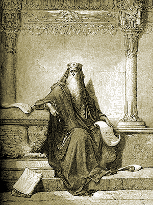 King Solomon. From Dore's illustrations for the Book of Proverbs.